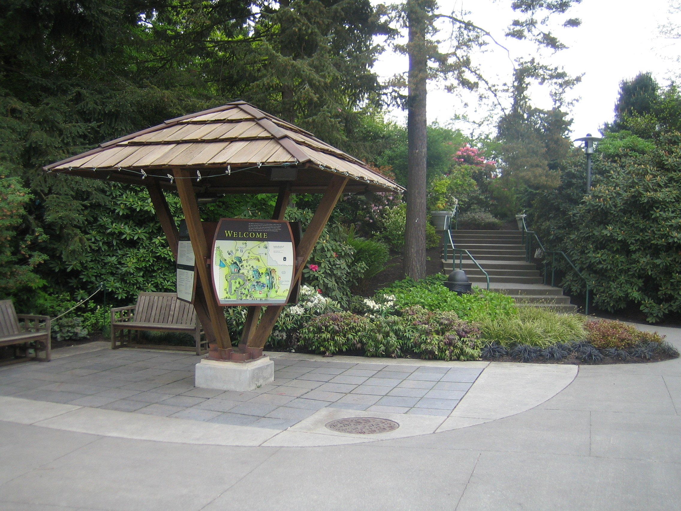 Information boards at the entrance to Bellevue Botanical Garden, Bellevue, Washington, US